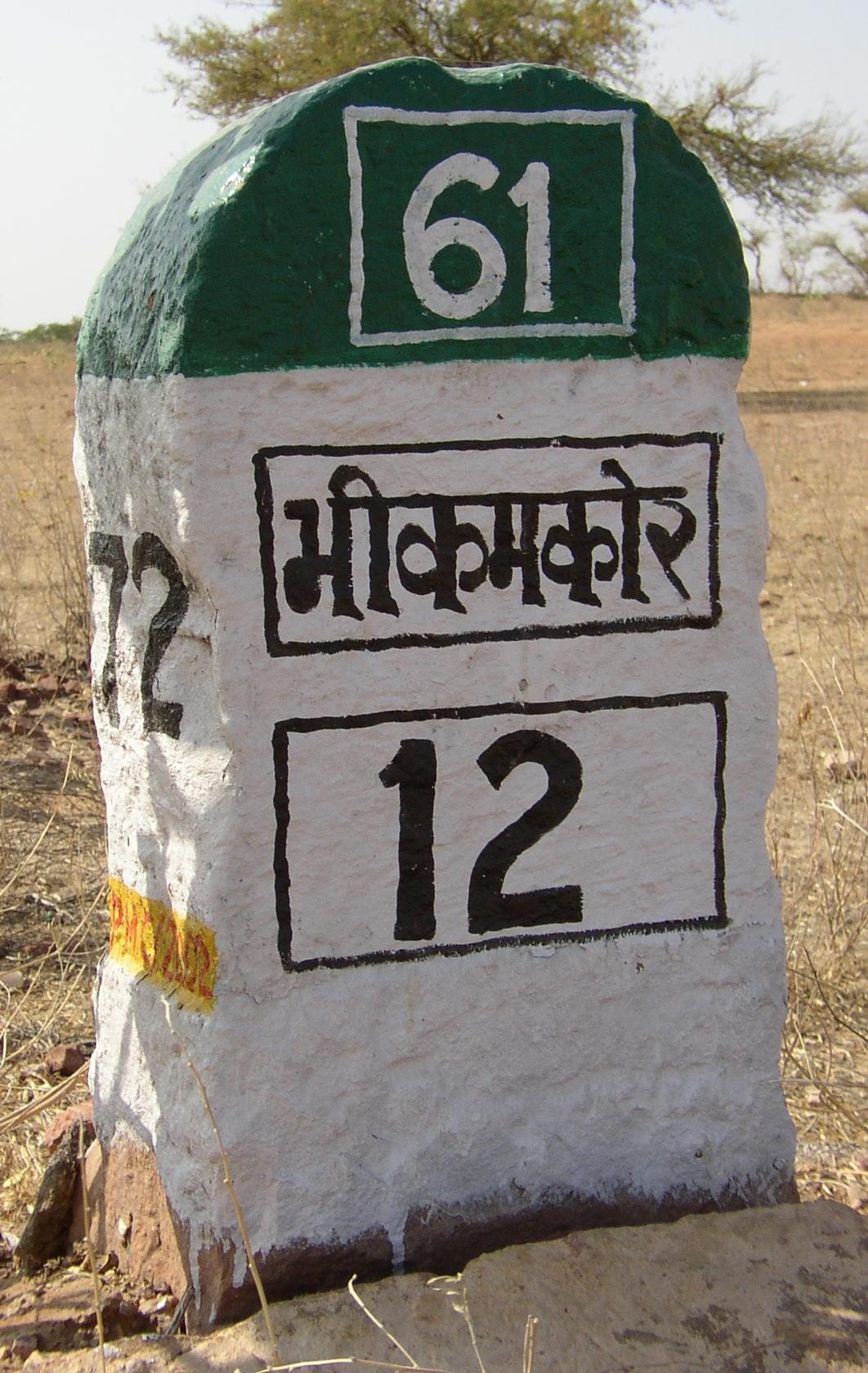 Kilometre sign near Osian in Rajasthan, India